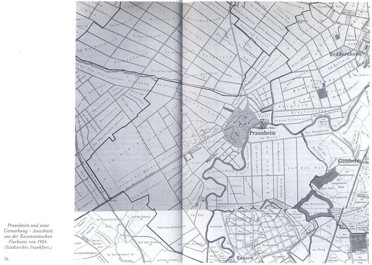 Praunheim and his district in 1904